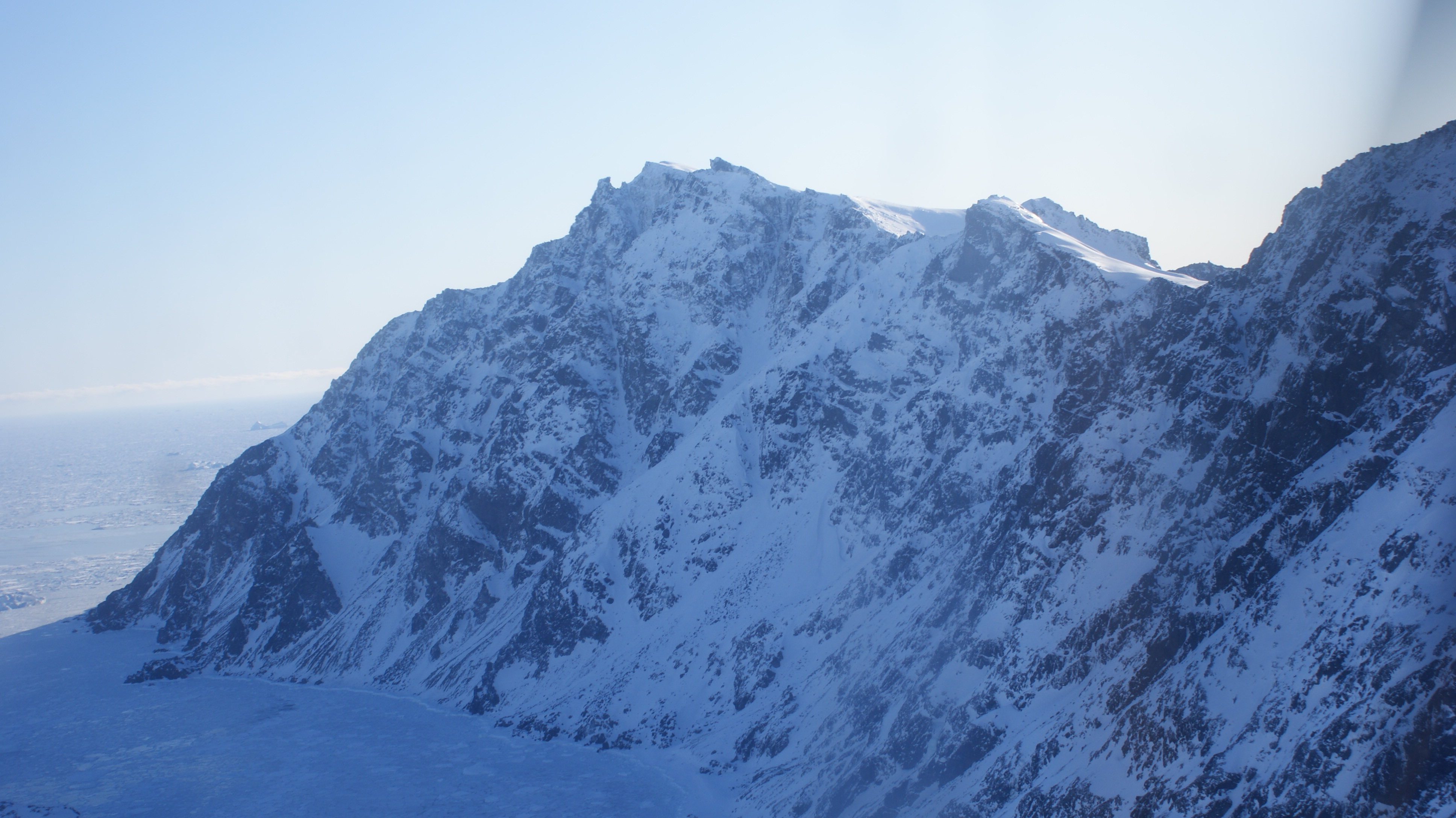 Aerial view of Saajat, a summit in the southeastern ridge of Qalorujoorneq, at 676m the highest mountain on Kulusuk Island, Greenland. Photographed from the Flugfélag Íslands de Havilland Canada Dash-8 106 during the Kulusuk-Reykjavík flight.